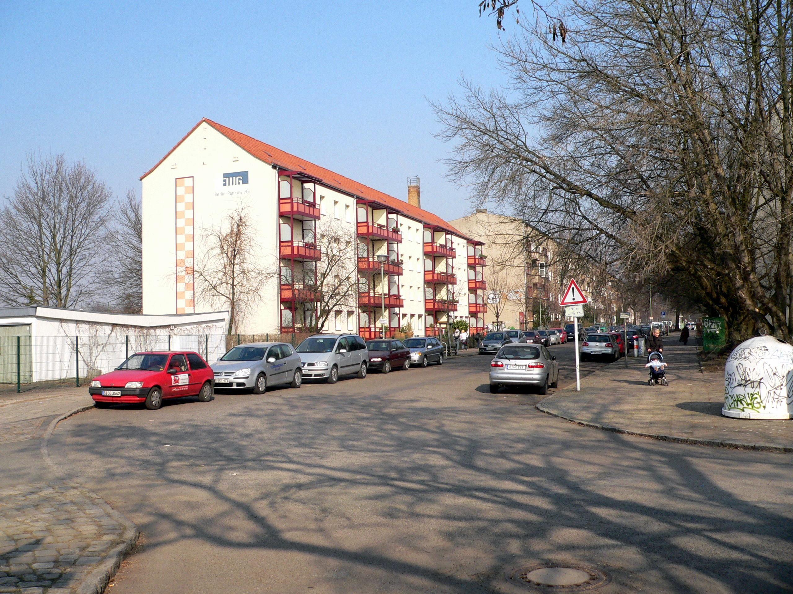 Berlin-Pankow Dolomitenstraße